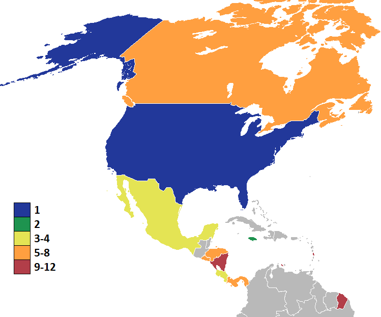 Map of results of the 2017 CONCACAF Gold Cup.